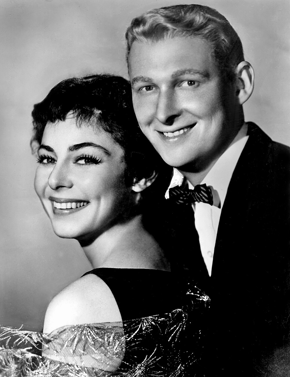 Publicity photo of Elaine May and Mike Nichols